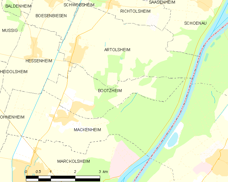 Map of French municipality